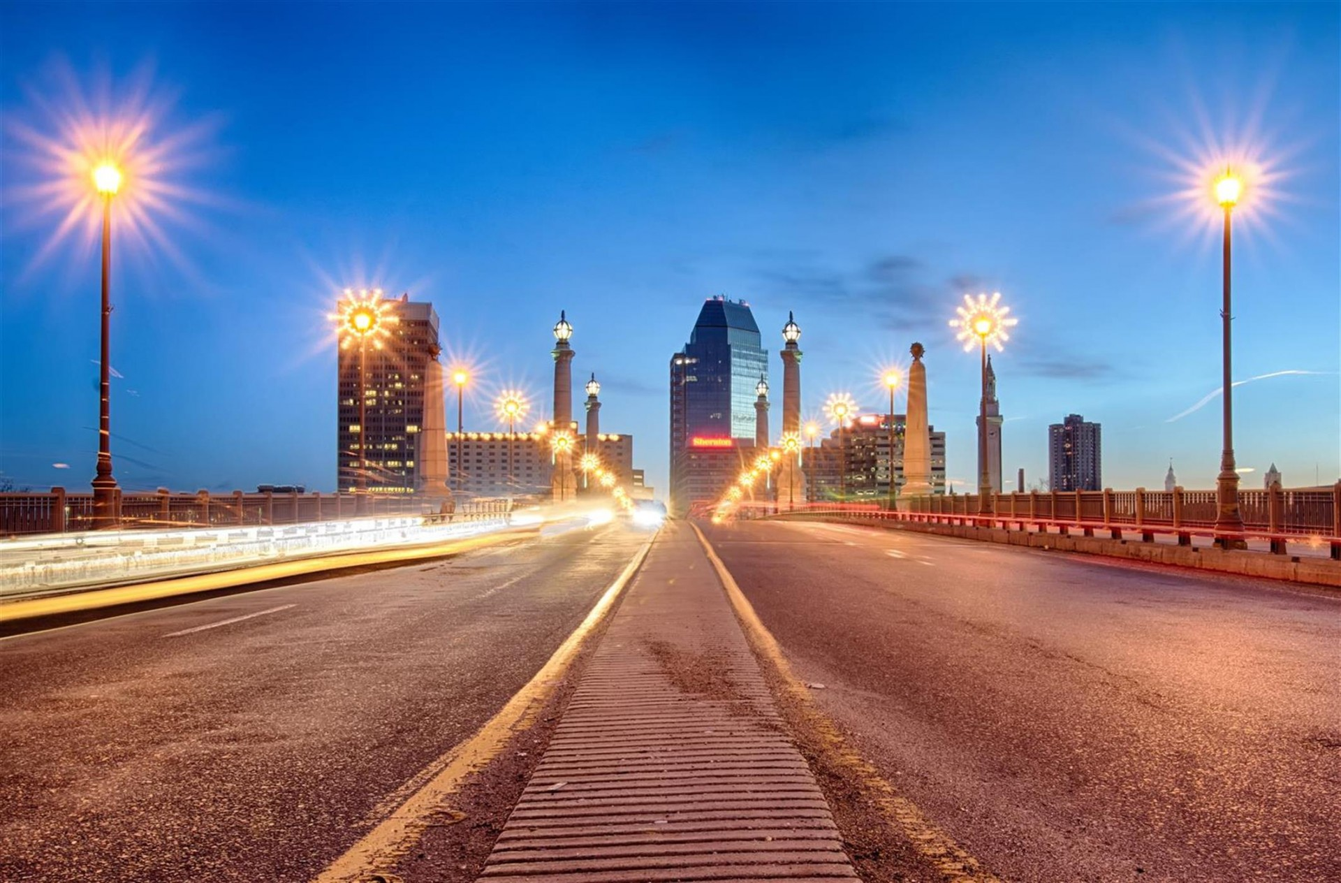 Skyline of Springfield, Massachusetts during blue hour.